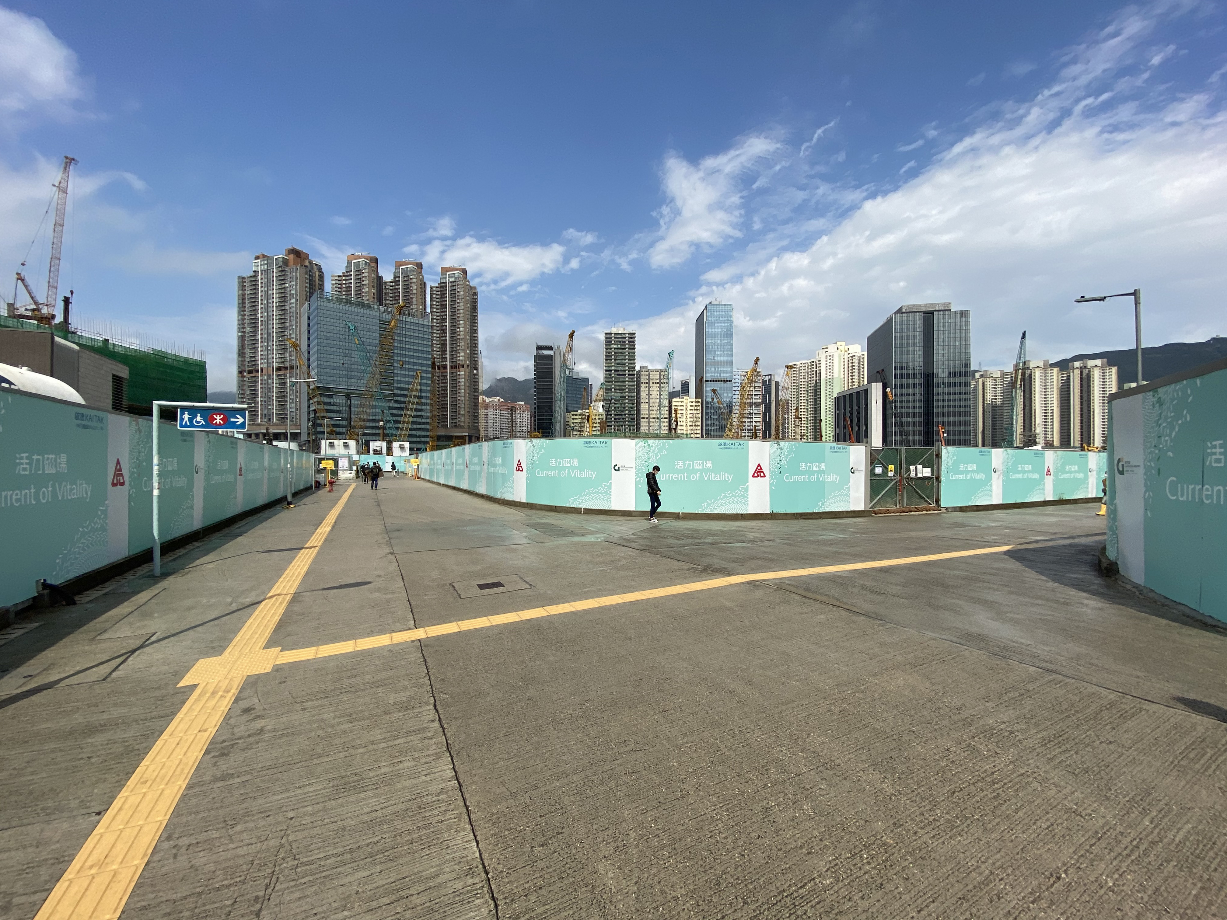 Temp access in Kai Tak